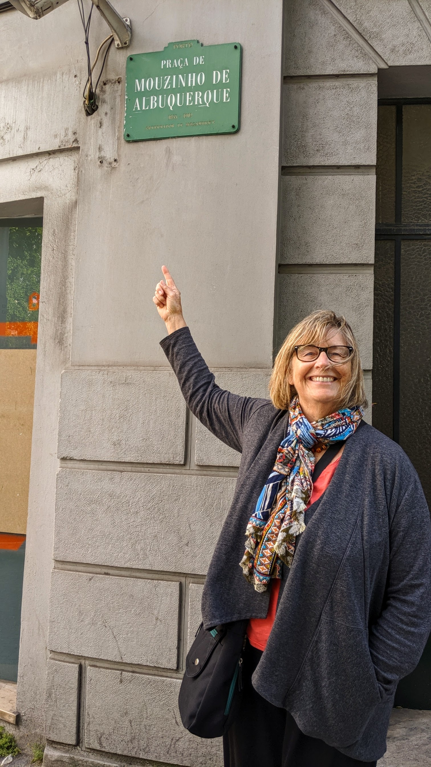 Mouzinho de Albuquerque in Porto, Portugal, with visitor from New Mexico who is delighted with the spelling